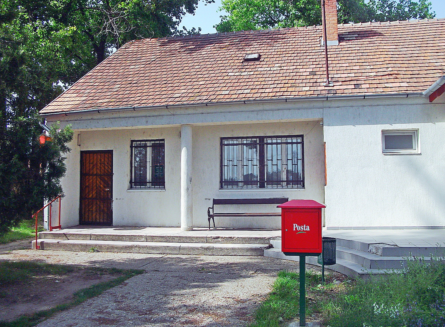 Magyar Posta in Zichyújfalu.